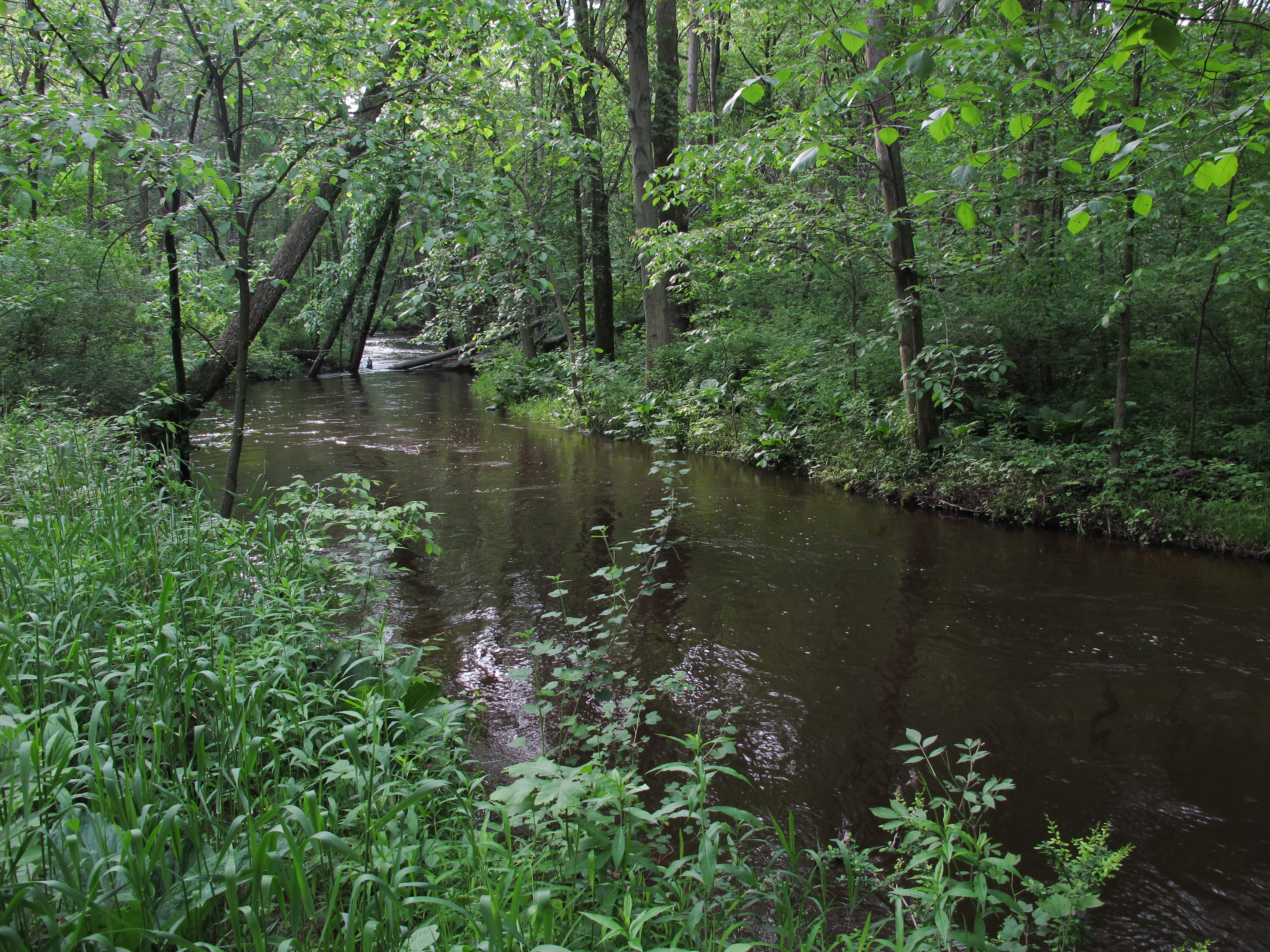 The Rabbit River as viewed from the Rabbit River Nature Trail in Wayland, Michigan.